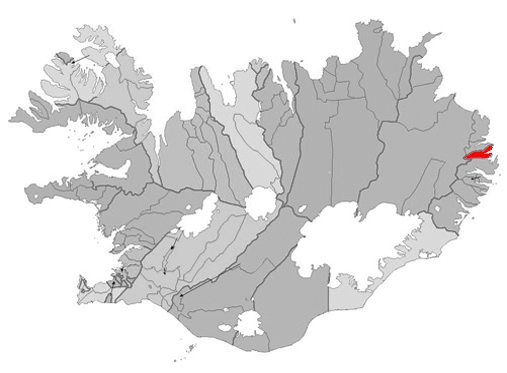 Based on Municipalities of Iceland.png.